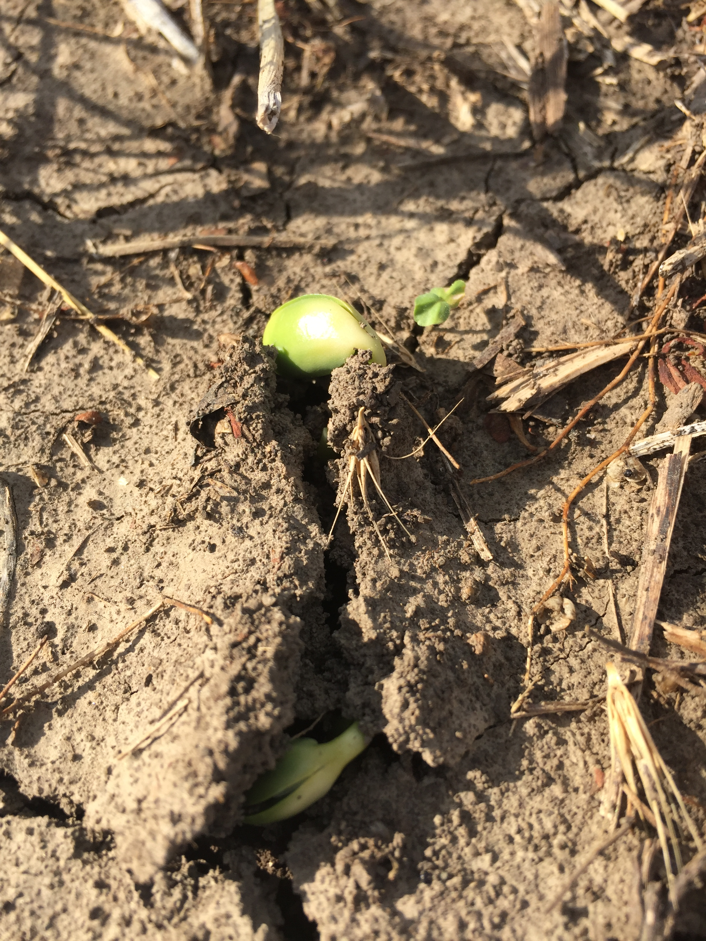 Northern Missouri Soybeans Breaking thru Gumbo Soil Crust